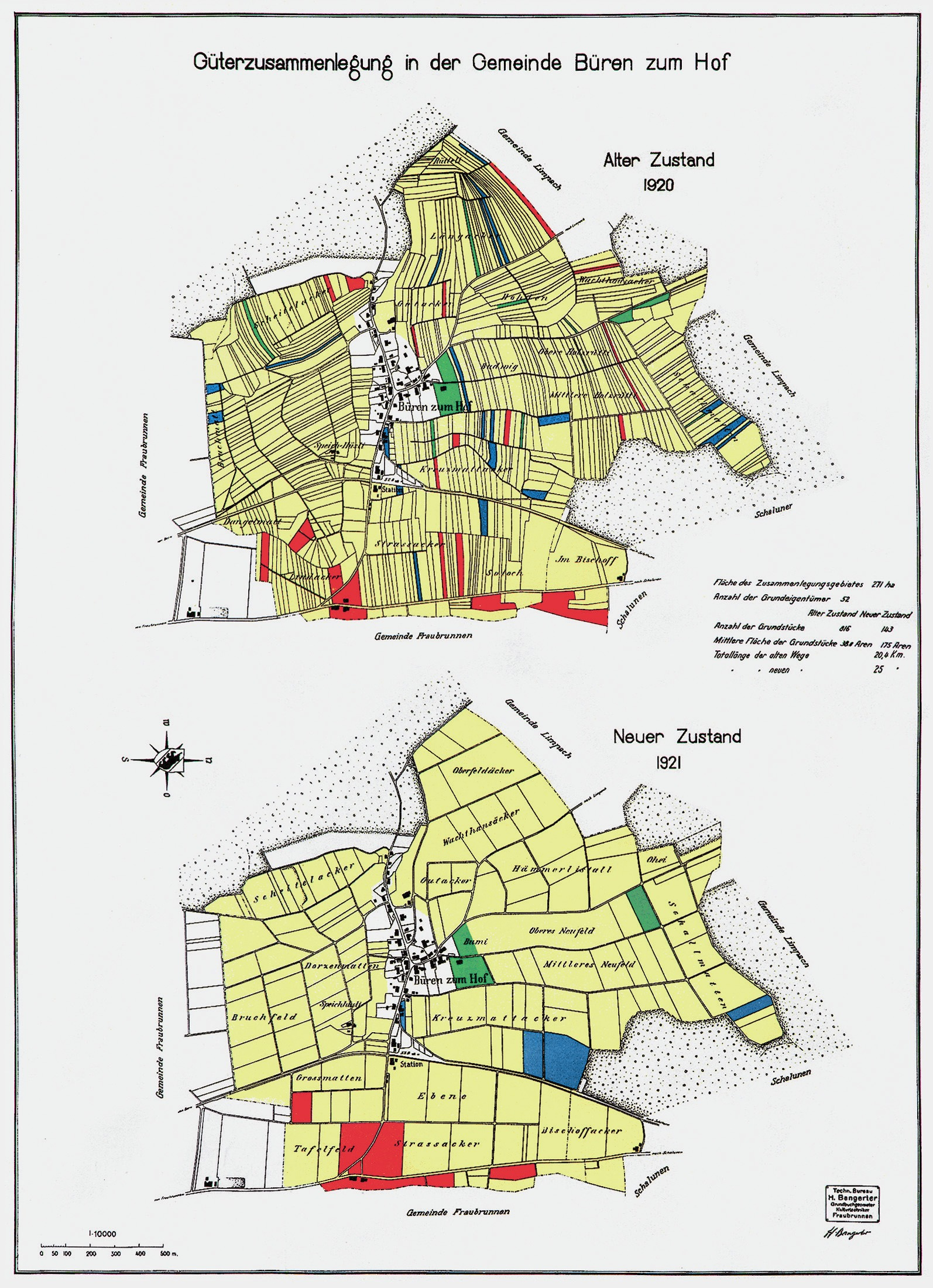 Land consolidation in the community of Büren zum Hof, Switzerland, 1920 and 1921 (Staatsarchiv Bern, AA IV 1883).